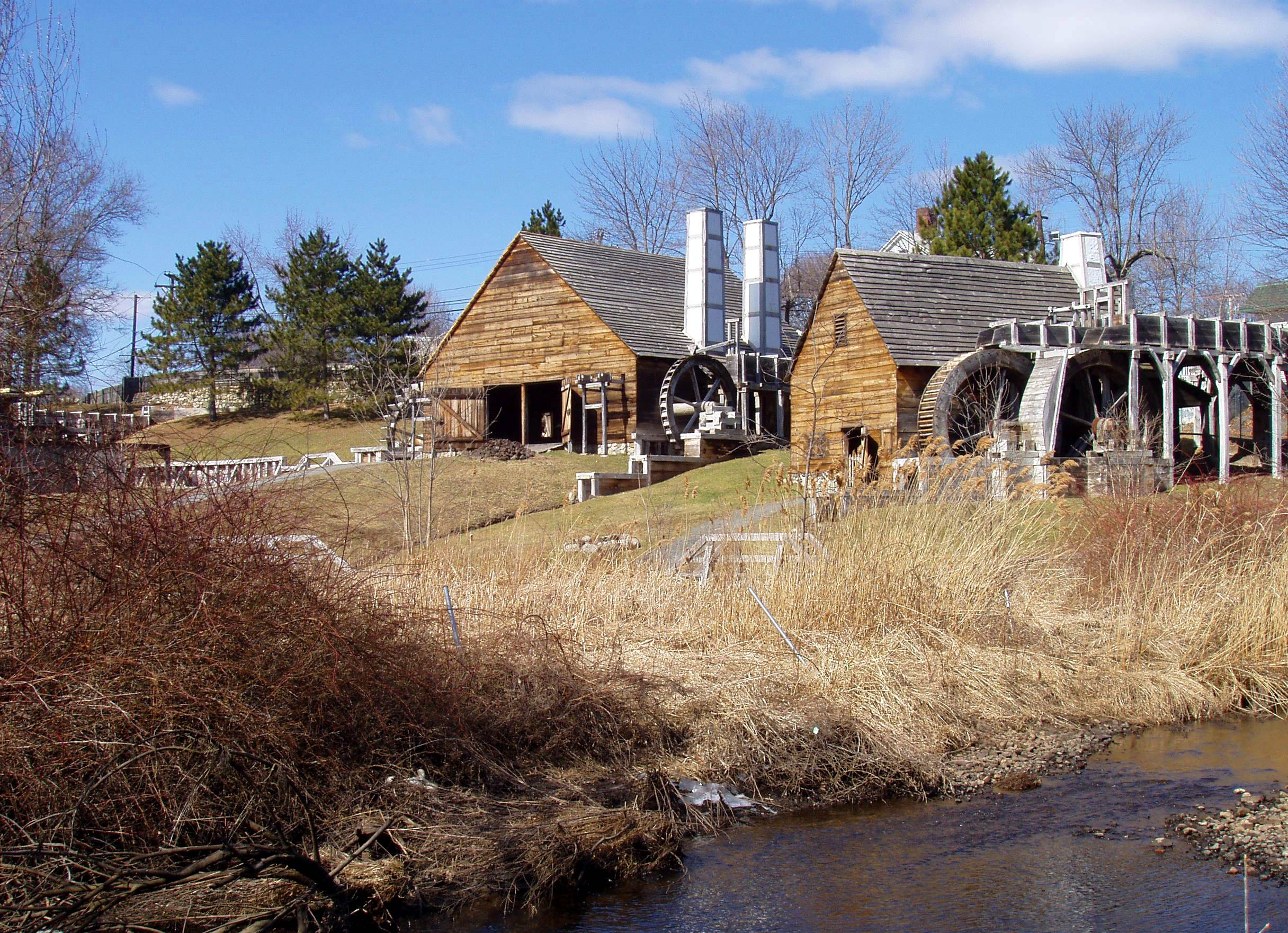 Saugus Iron Works - reconstructed forge and mill. This photograph was taken by me, in Saugus, Massachusetts, March 2006.